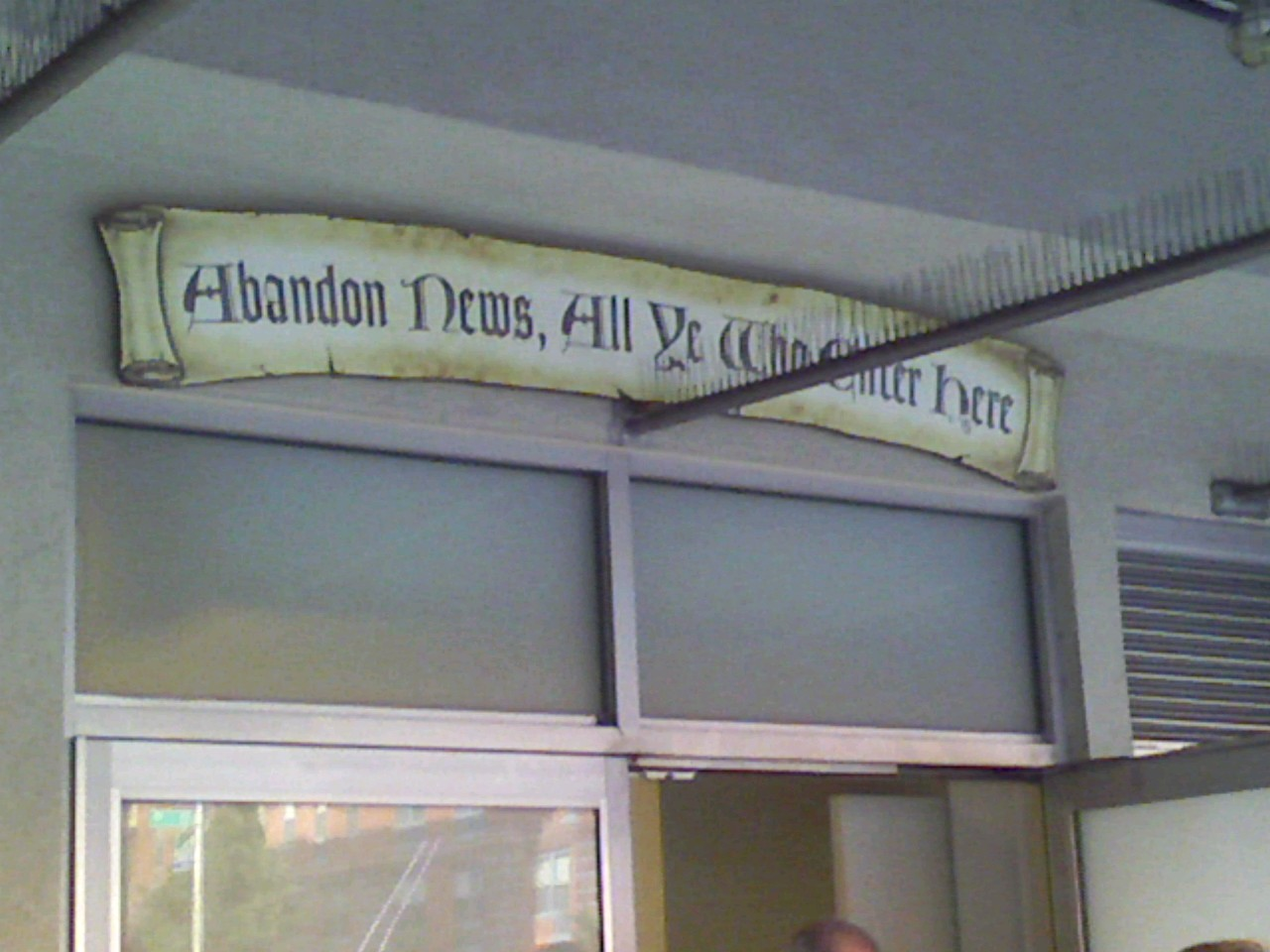 The sign over the entryway of the studio of The Daily Show. Dp76764 (talk) 19:17, 20 November 2007 (UTC) The sign says, "Abandon News, All Ye Who Enter Here"—a take-off on the phrase, "Abandon all hope, ye who enter here", which is said to be inscribed on the Gates of Hell in Dante's Inferno.